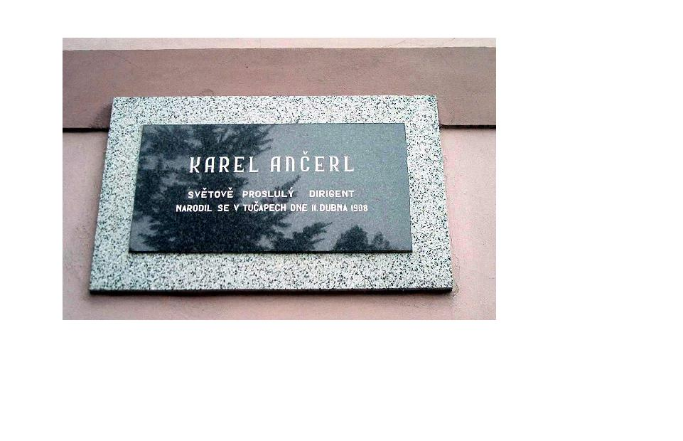 Memorial plaque to the Czech conductor Karel Ančerl that was unveiled on September 6, 1998 on the municipal office building in his native Tučapy, Tábor District. Photographed in 2005